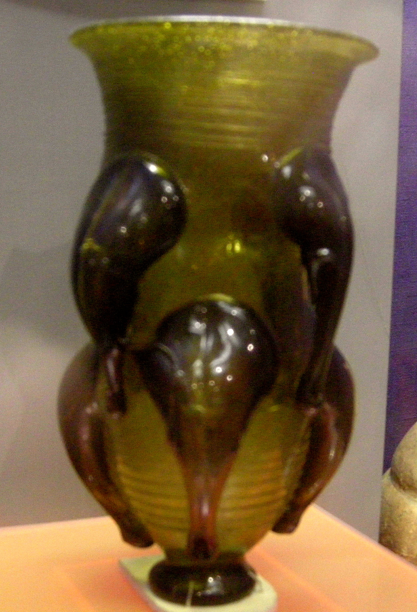 Brown "claw glass" beaker at Herne Bay Museum and Gallery. It is decorated with glass tears or claws, found before 1830 near Broomfield, Herne Bay. It is from the Canterbury Museum collection, and is in the Anglo Saxon cabinet. Note: The label does not mention its date or cultural origin. This image is blurred due to being photographed through glass; a better photograph of the same artefact is needed.